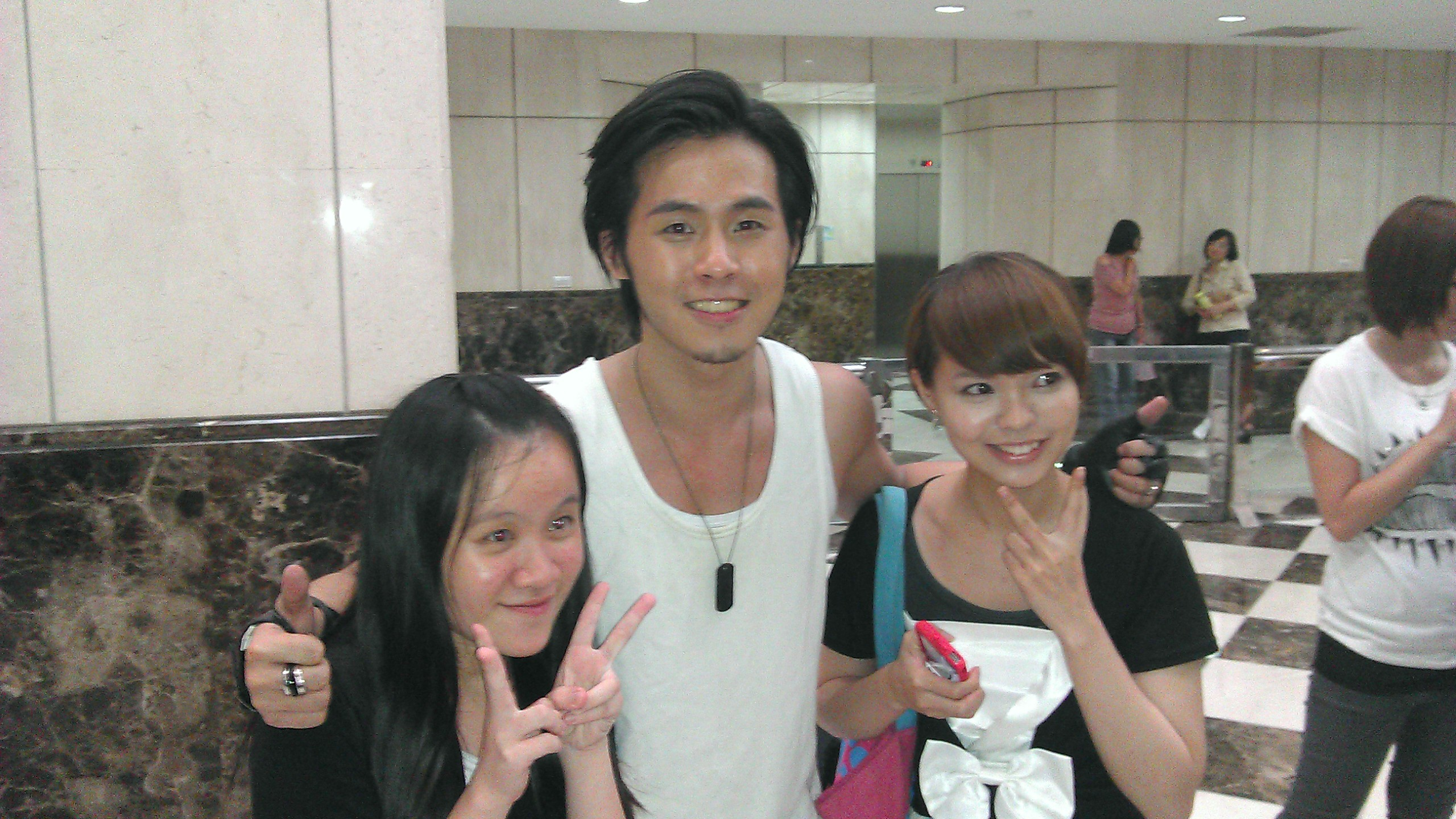 The competitors Yangjing Fan of the TV show Super Star: I Want to Be A Singer, with his fans.